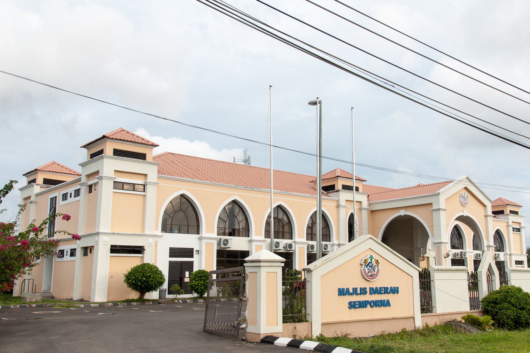 Semporna District Council (Majlis Daerah Semporna)